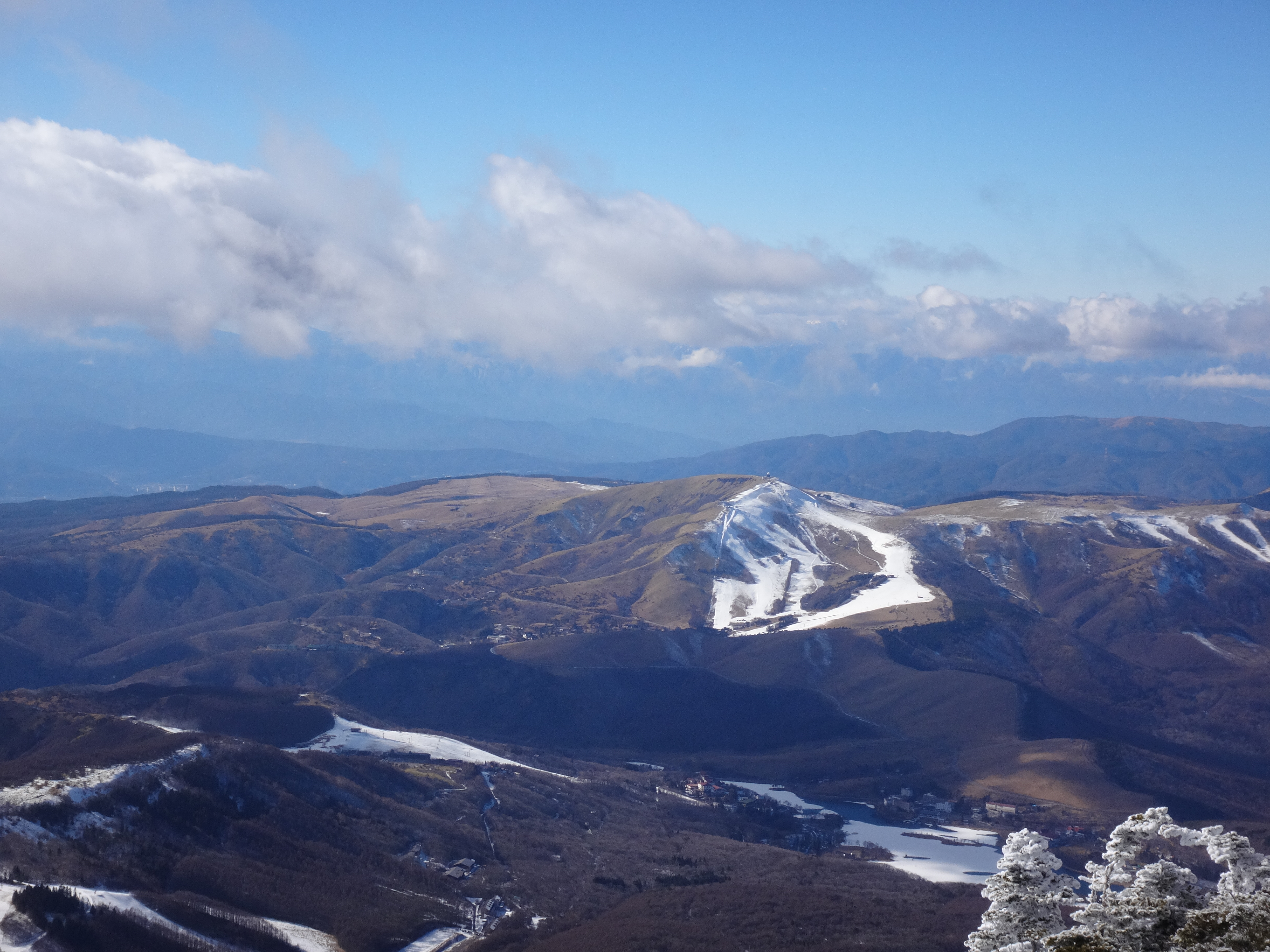 Looking the East from Mount Tateshina. Mount Kirigamine in the center.